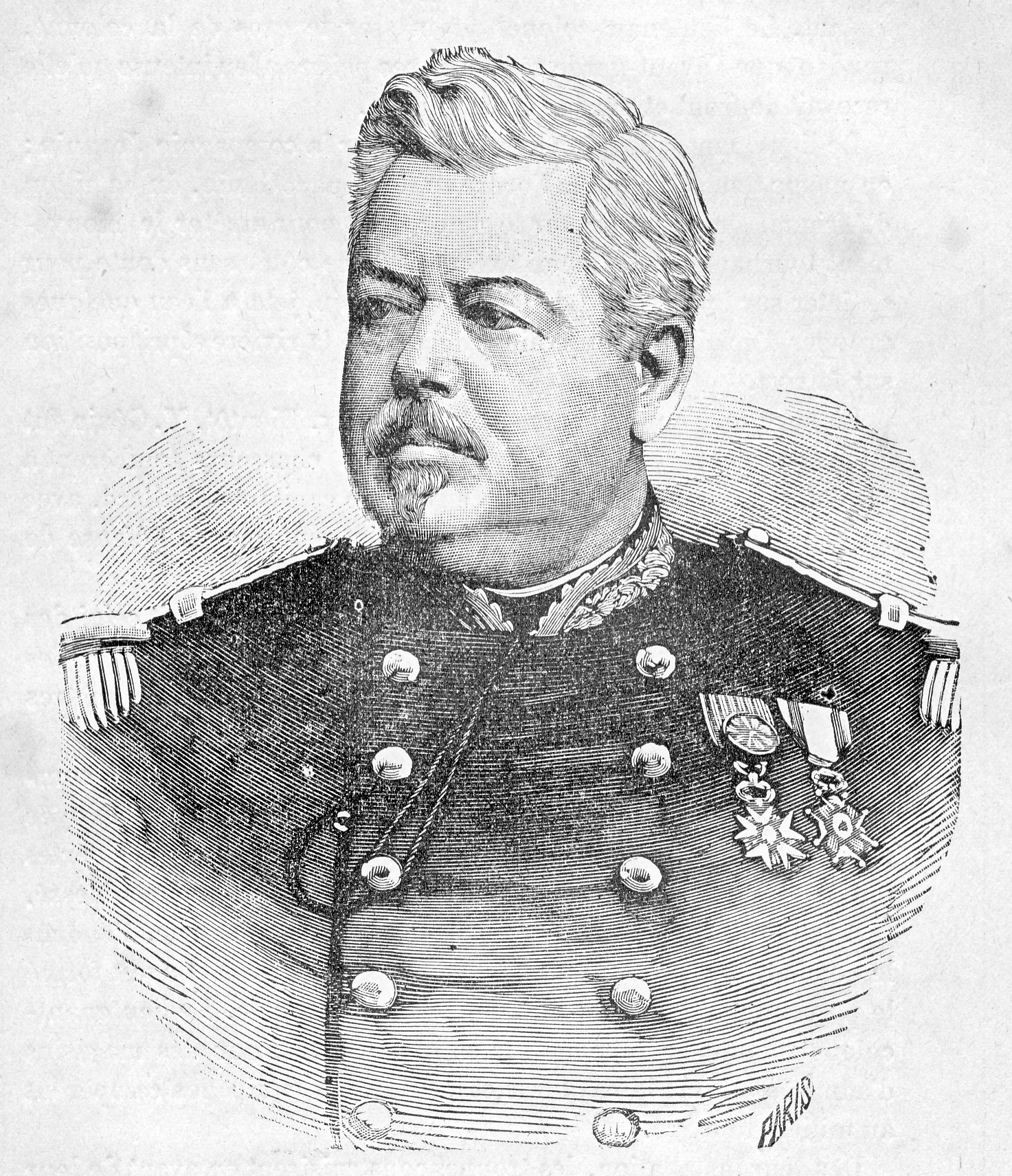 Portrait of General Charles-Théodore Millot (1829–89) on his assumption of command of the Tonkin Expeditionary Corps, February 1884